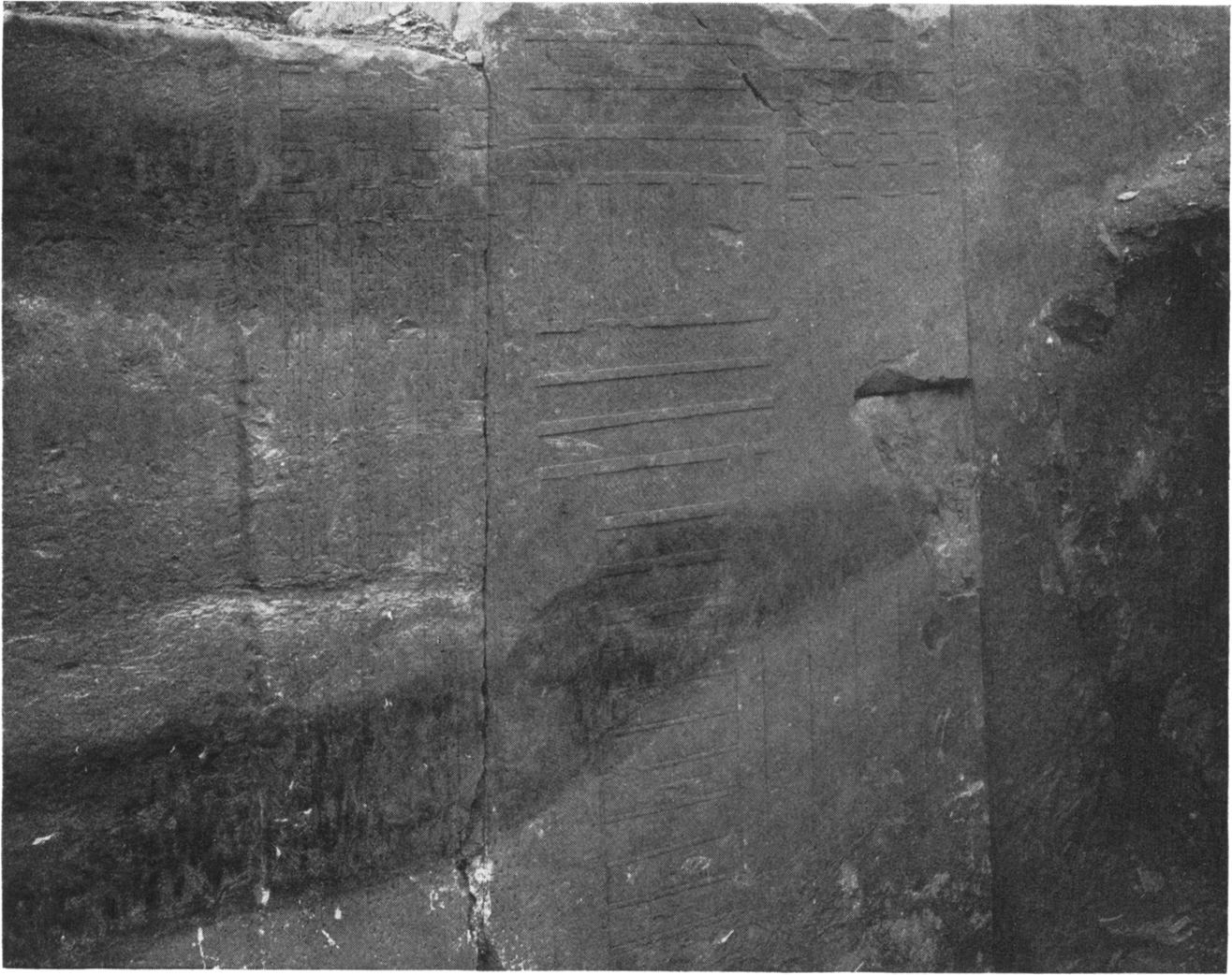 Palace facade at the enclosure wall of the Pyramid of Senusret I